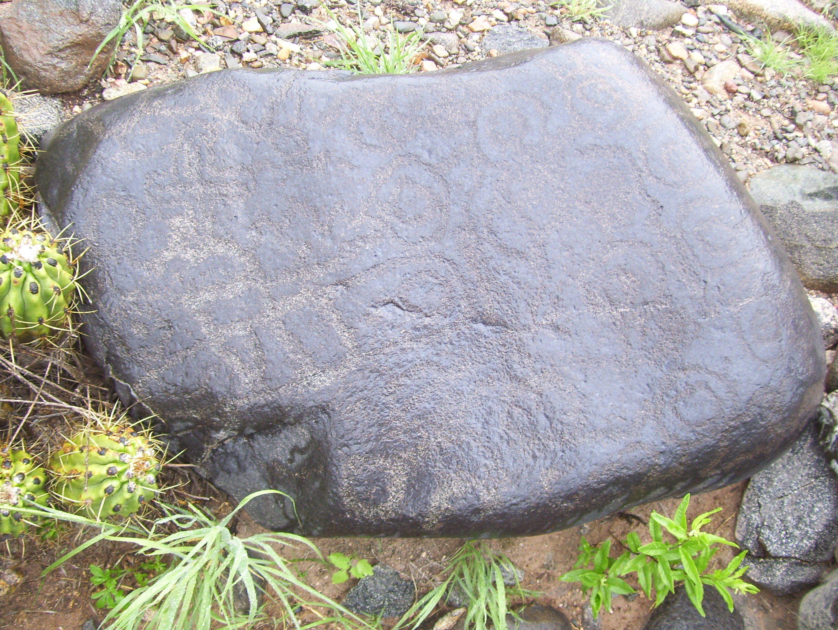 Petroglyph in Famatina mountain range, La Rioja, Argentina.